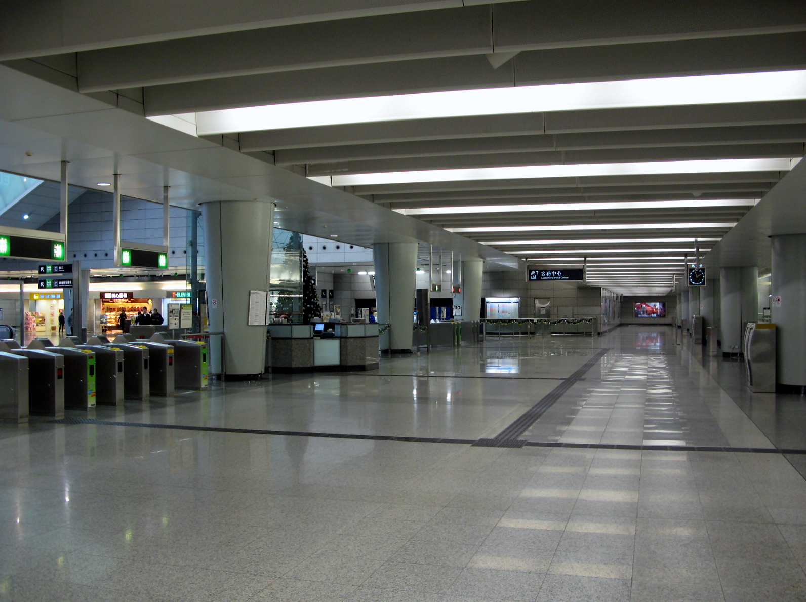 Kowloon Station Concourse